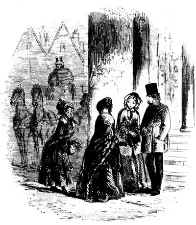 Photo of illustration from novel Bleak House by Charles Dickens